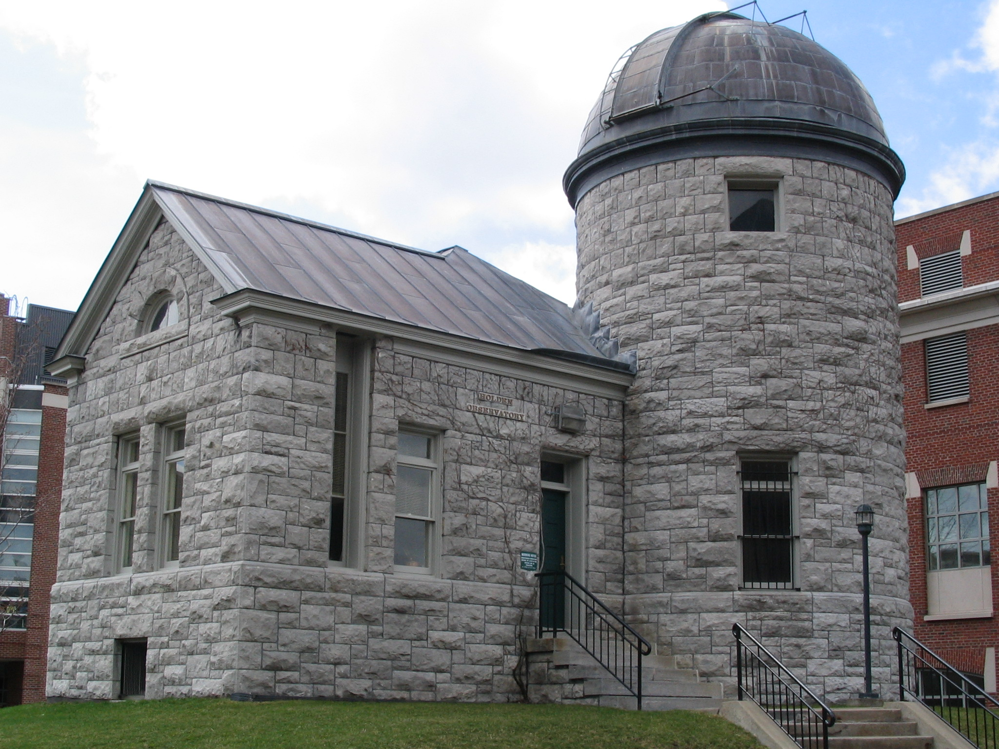 This is an image of Holden Observatory that I took with my digital camera. This building is located on Syracuse University.